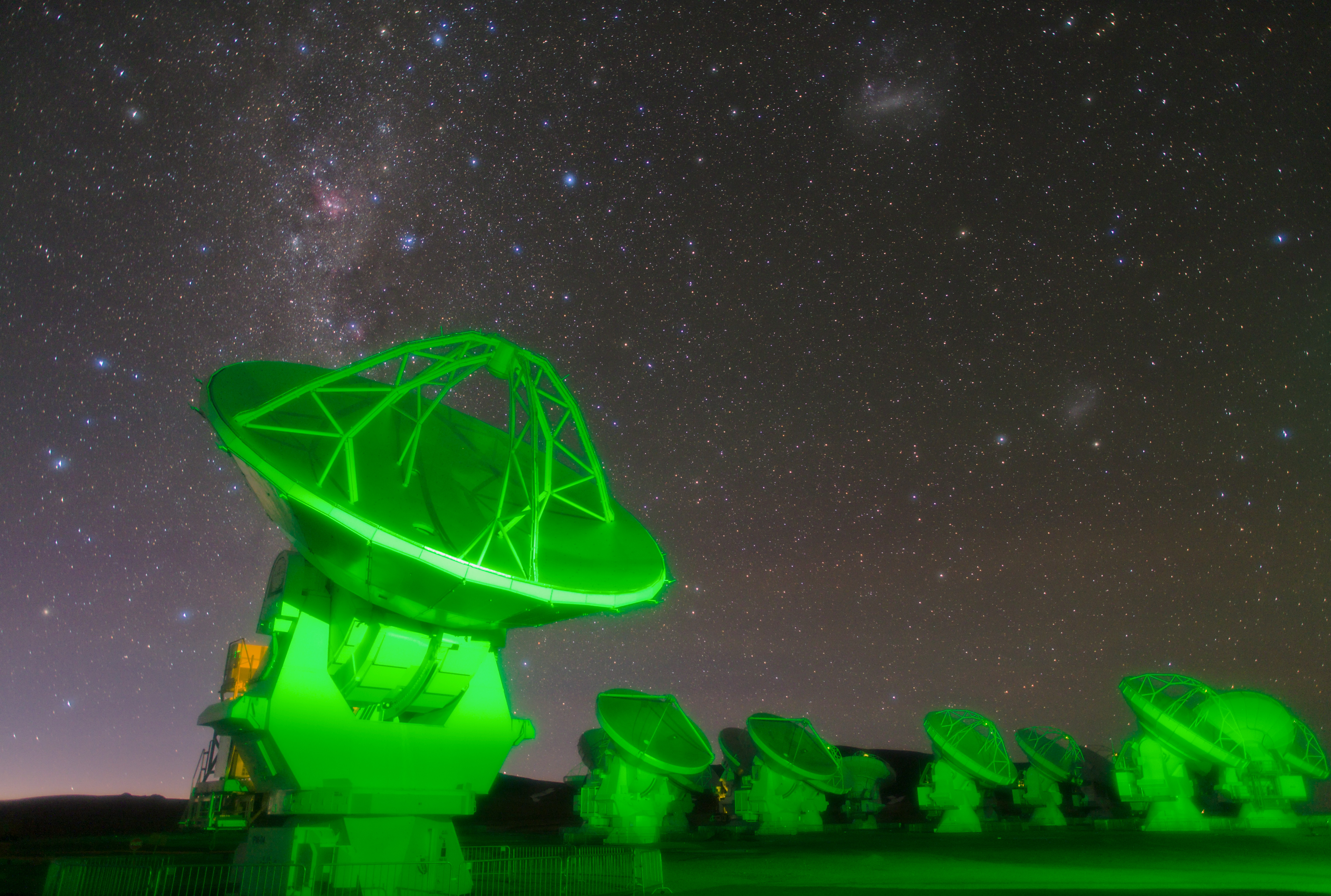 Antennas of the Atacama Large Millimeter/submillimeter Array (ALMA) on the Chajnantor Plateau. The green light in this long exposure comes from lights on other ALMA antennas that are out of shot.